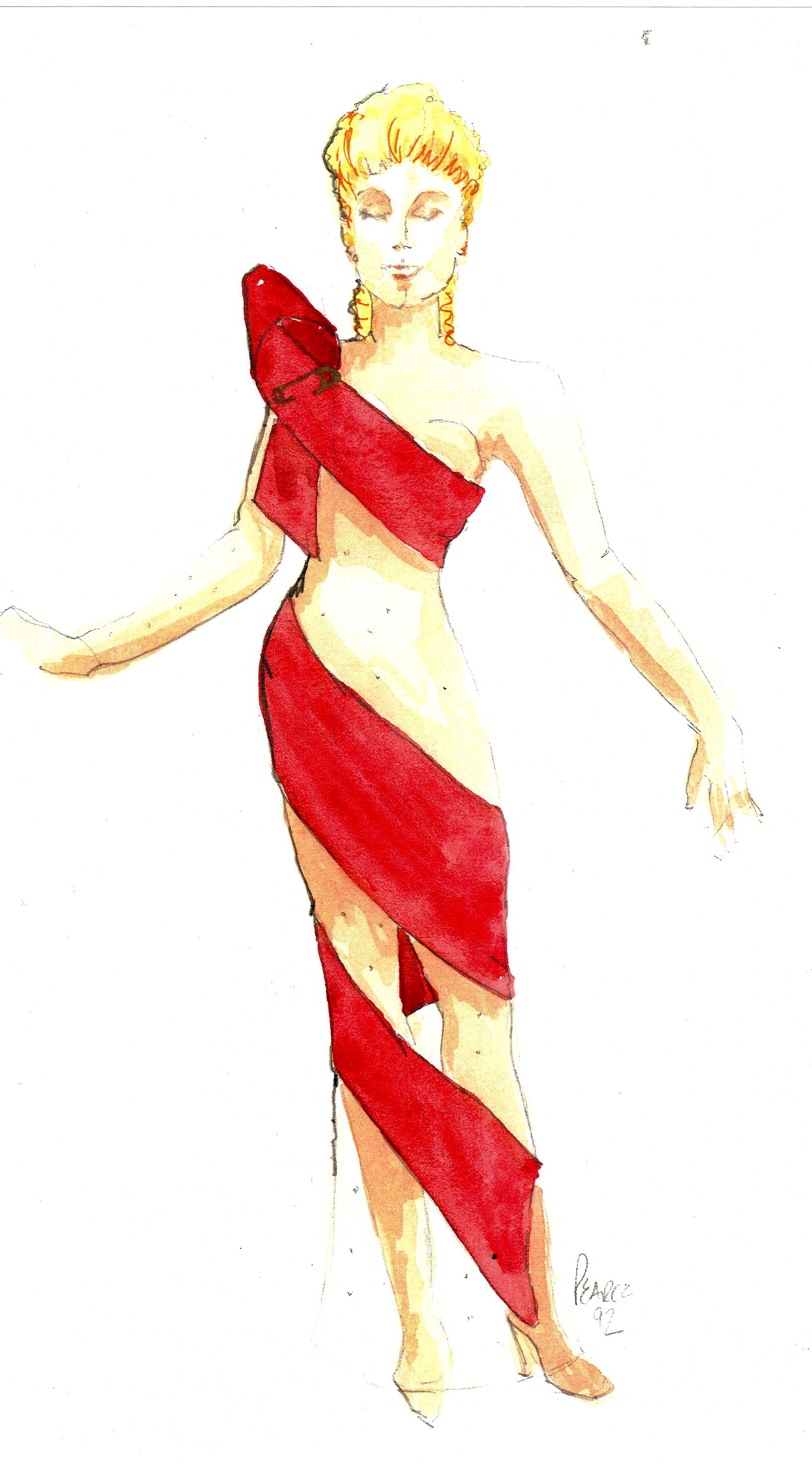 a scan of an original sketch by Bobby Pearce